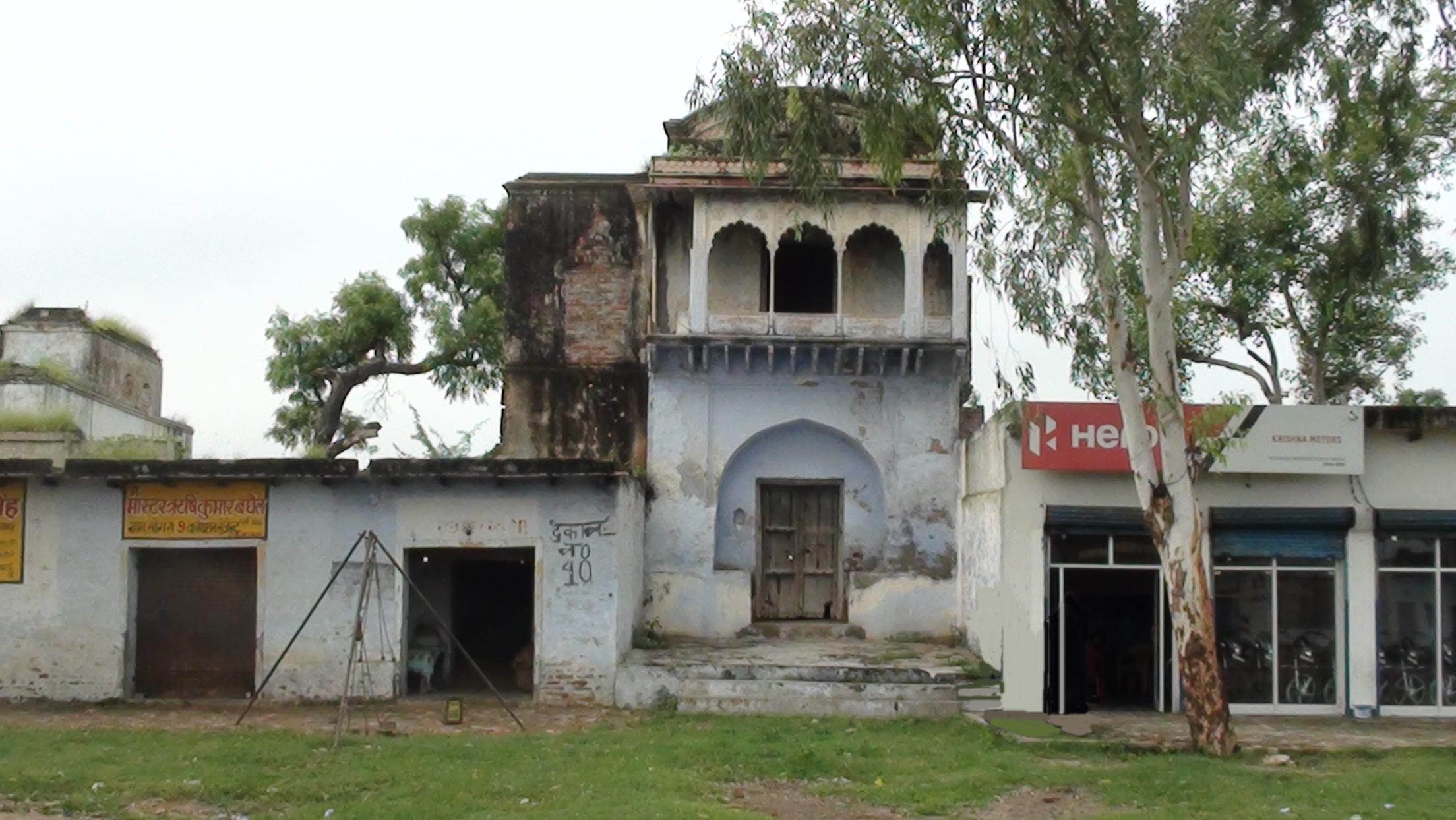 This Picture of Barauli Fort(a Bargujar dynasty)